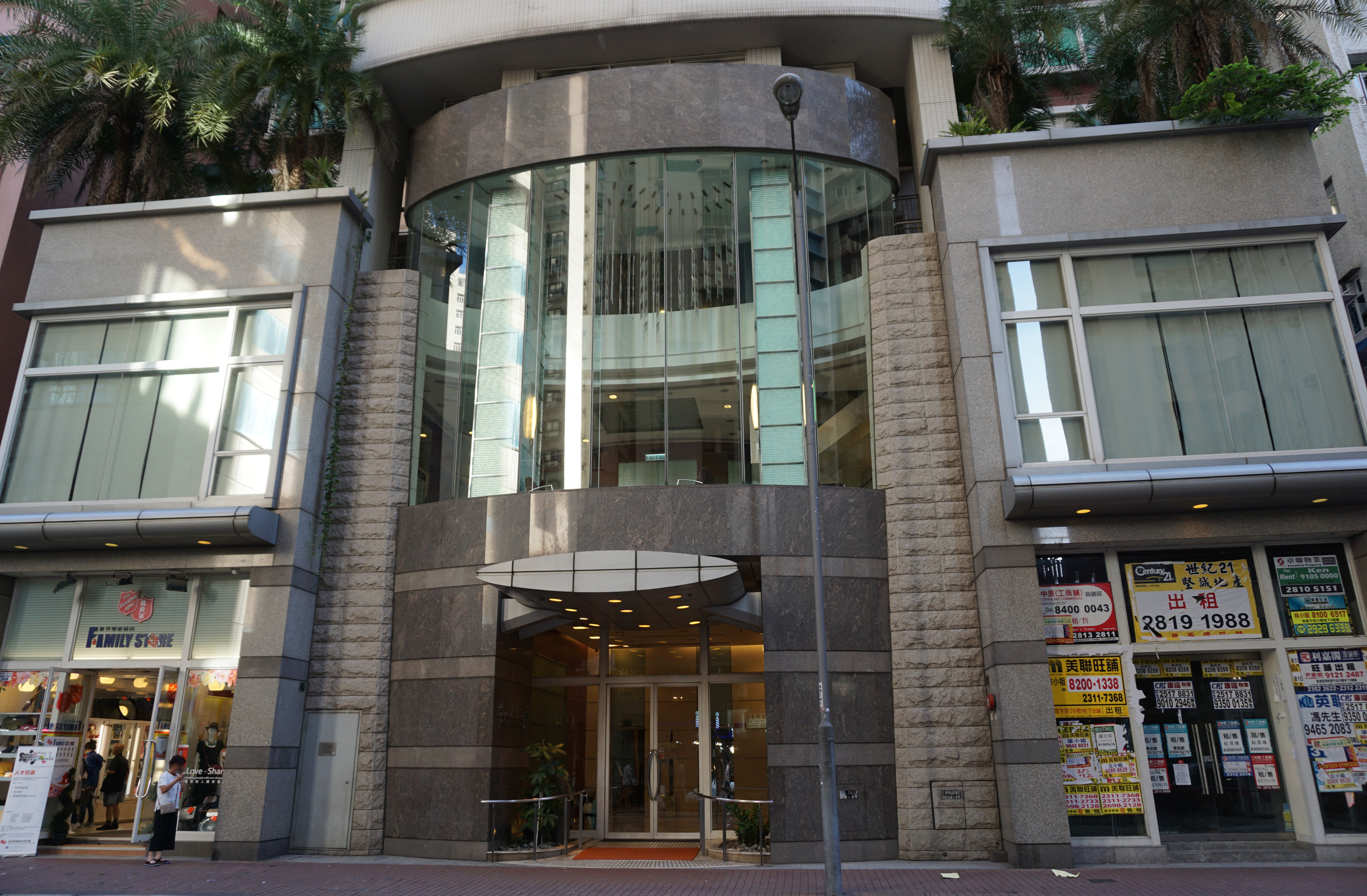 Ivy on Belcher's in Kennedy Town, Hong Kong.